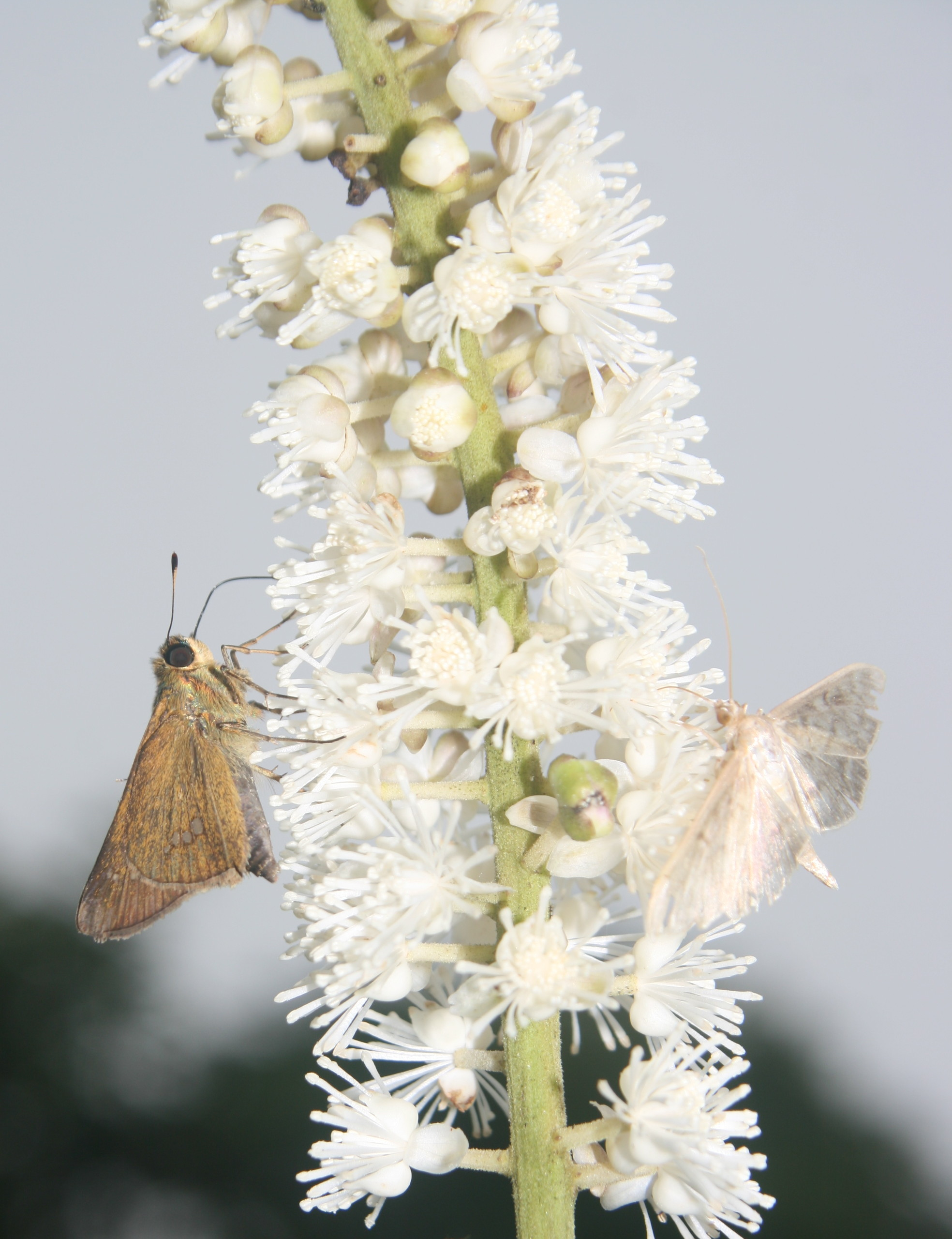 Actaea_simplex_and_Parnara_guttata_in Mount Ibuki